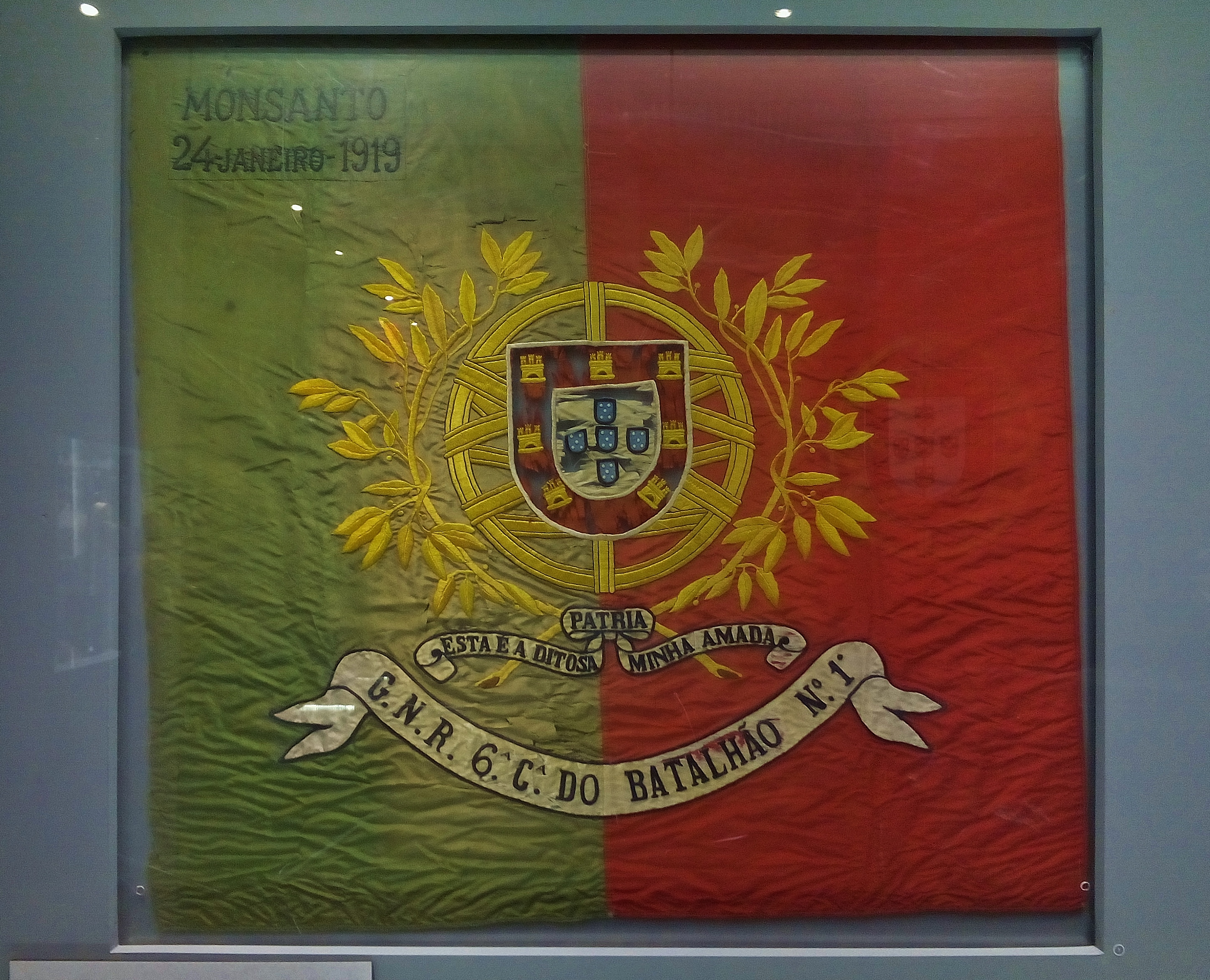 GNR (Guarda Nacional Republicana - Republican National Guard) National Standard, assigned to the 6th Company (Saint Barbara) of the Lisbon GNR 1st Batallion, on 13 April 1919, for their successful intervention against the monarchical forces in the Battle of Monsanto. Photograph taken in the Museum of the GNR, Quartel do Carmo, Lisbon, Portugal.